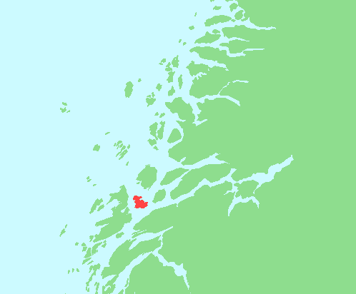 Locator map of Løkta, Nordland, Norway